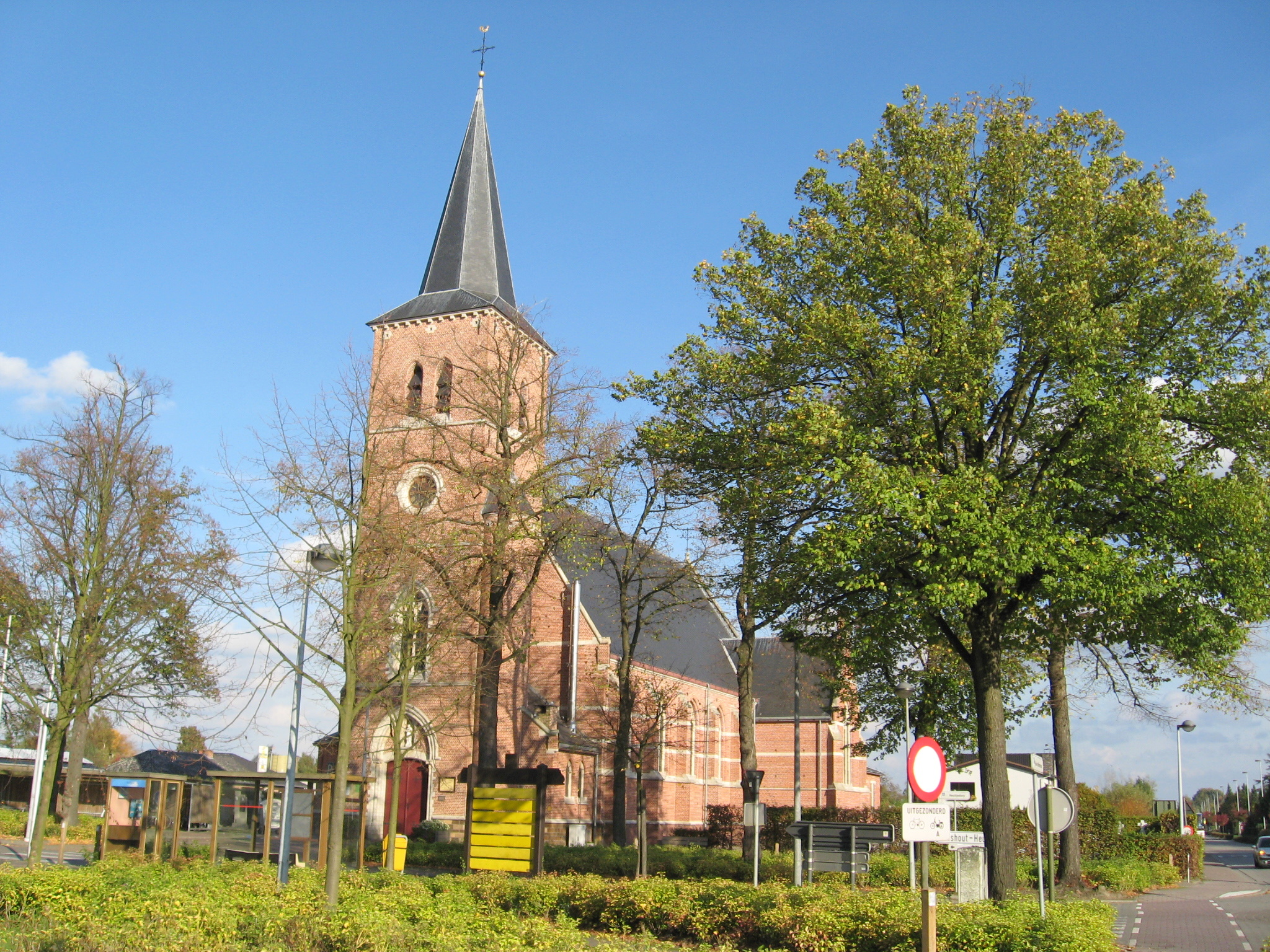 Church of Saint Charles Borromeus in Heultje, Westerlo, Antwerp, Belgium